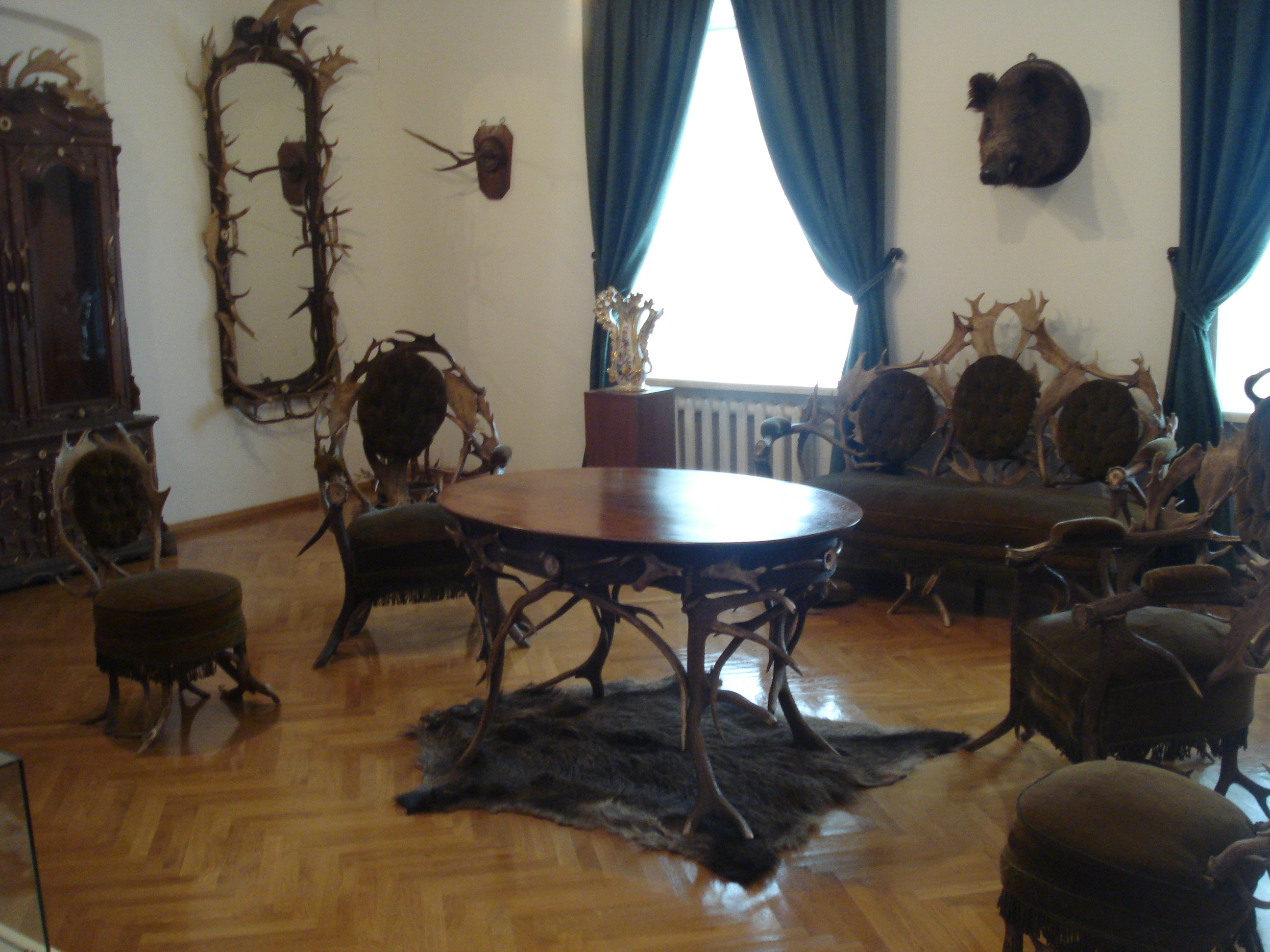 The set of furniture made of horn from Apytalaukis mansion-house in Kėdainiai Regional Museum (Lithuania)